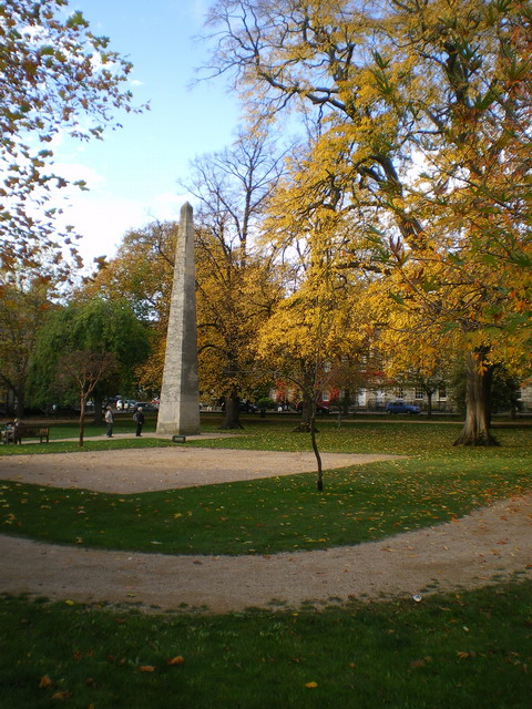 Queen Square and the obelisk Designed and erected by 'Beau' Nash in 1738, in honour of the then Prince of Wales.